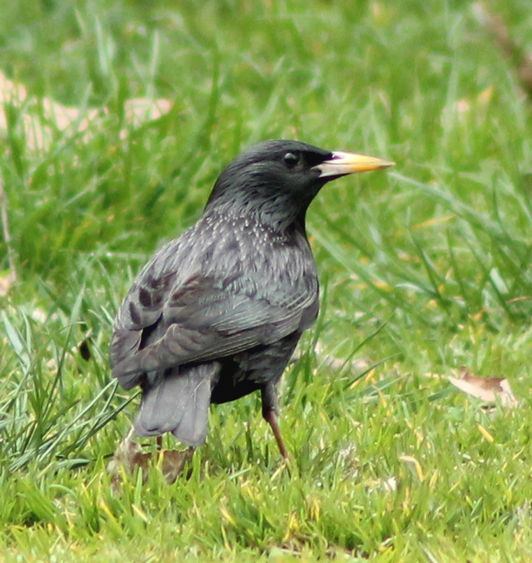 A Spotless Starling (Sturnus unicolor) in Madrid (Spain).